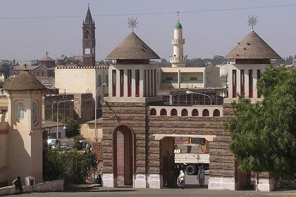 Compound of Enda Mariam Orthodox Church (foreground), Towers of Roman Catholic church (rear left), Al Khulafa Al Rashiudin Mosque (rear right); Author: Hans van der Splinter & Mebrat Tzehaie URL